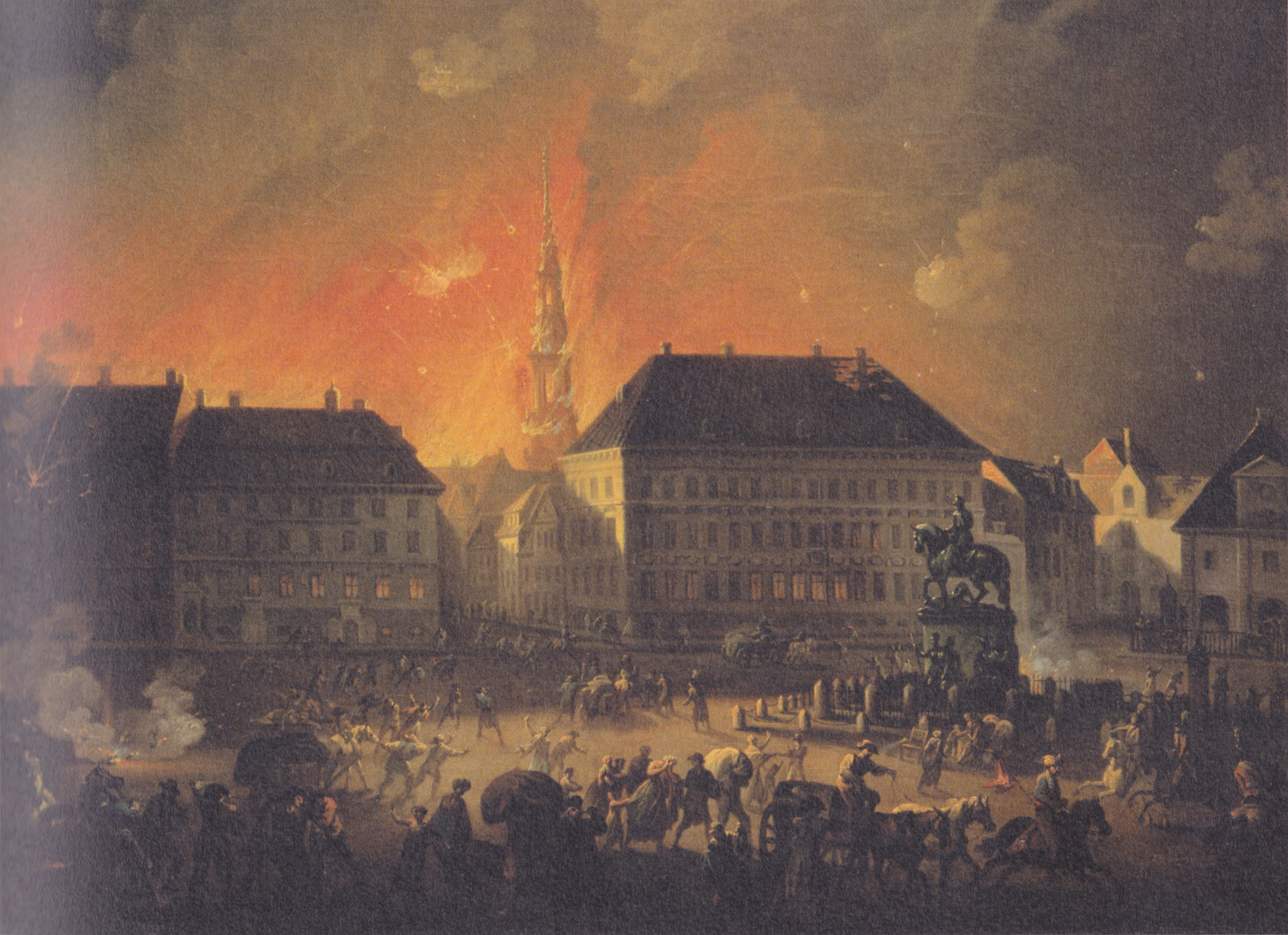 The British bombardment of Copenhagen, night between 4th and 5th of September 1807. Center of the painting is Kongens Nytorv.